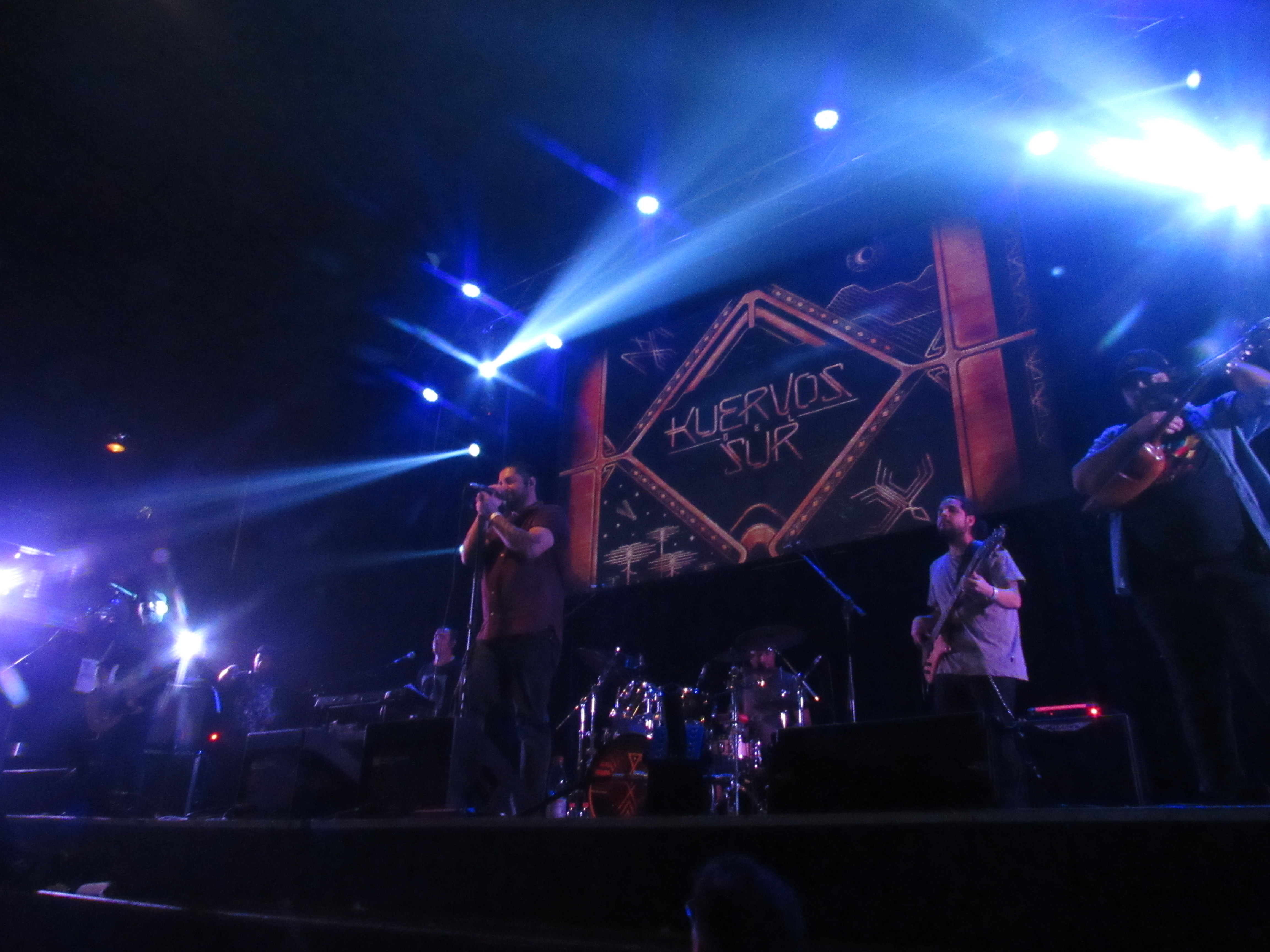 Photograph of the chilean rock band Kuervos del Sur during the presentation at "Peña de los Kuervos" held on March 23, 2019 at Club Chocolate, Barrio Bellavista, Santiago of Chile.